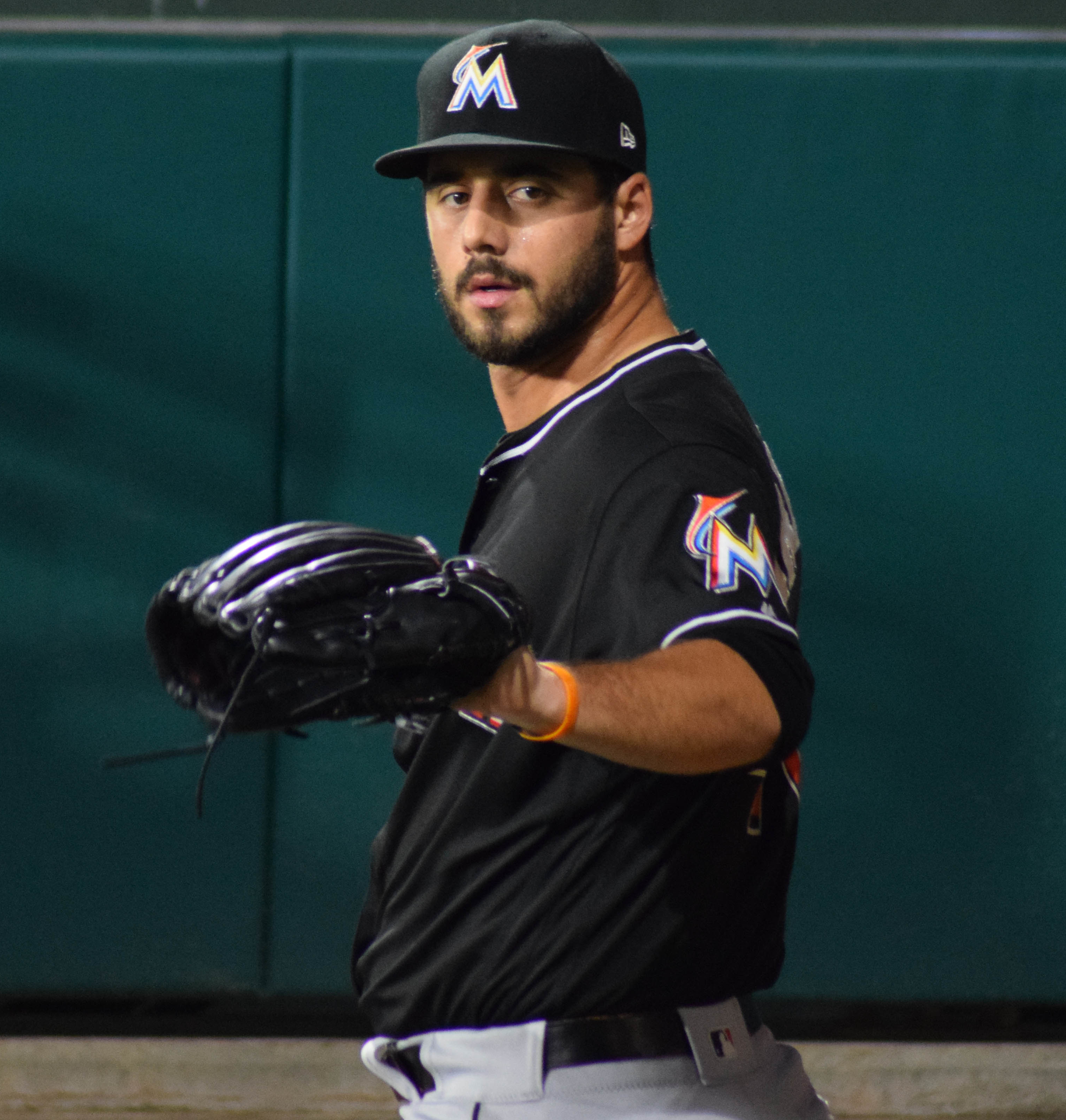 Kyle Barraclough of the Miami Marlins in the bullpen at Citizens Bank Park in Philadelphia in 2018